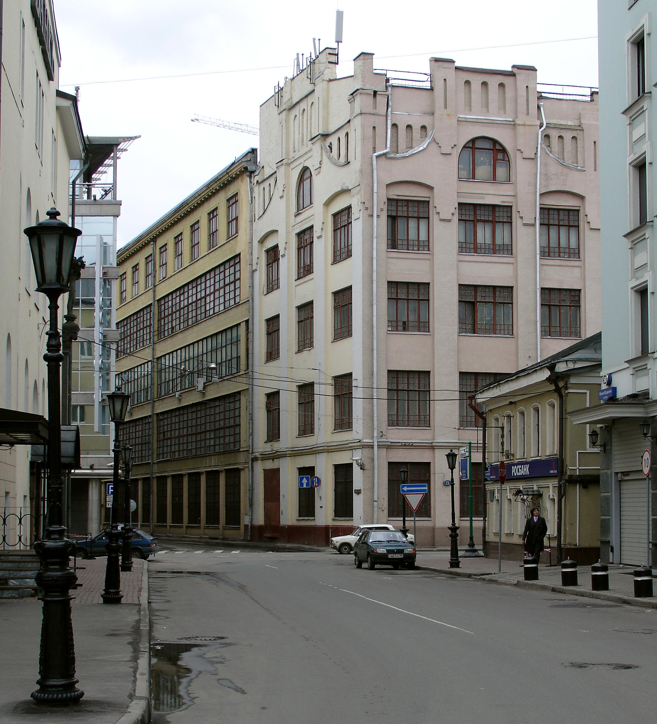 Ivan Sytin's Printshop, 71 Pyatnitskaya Street, Moscow, Russia, architect: Adolph Erichson, engineer: Vladimir Schukhov